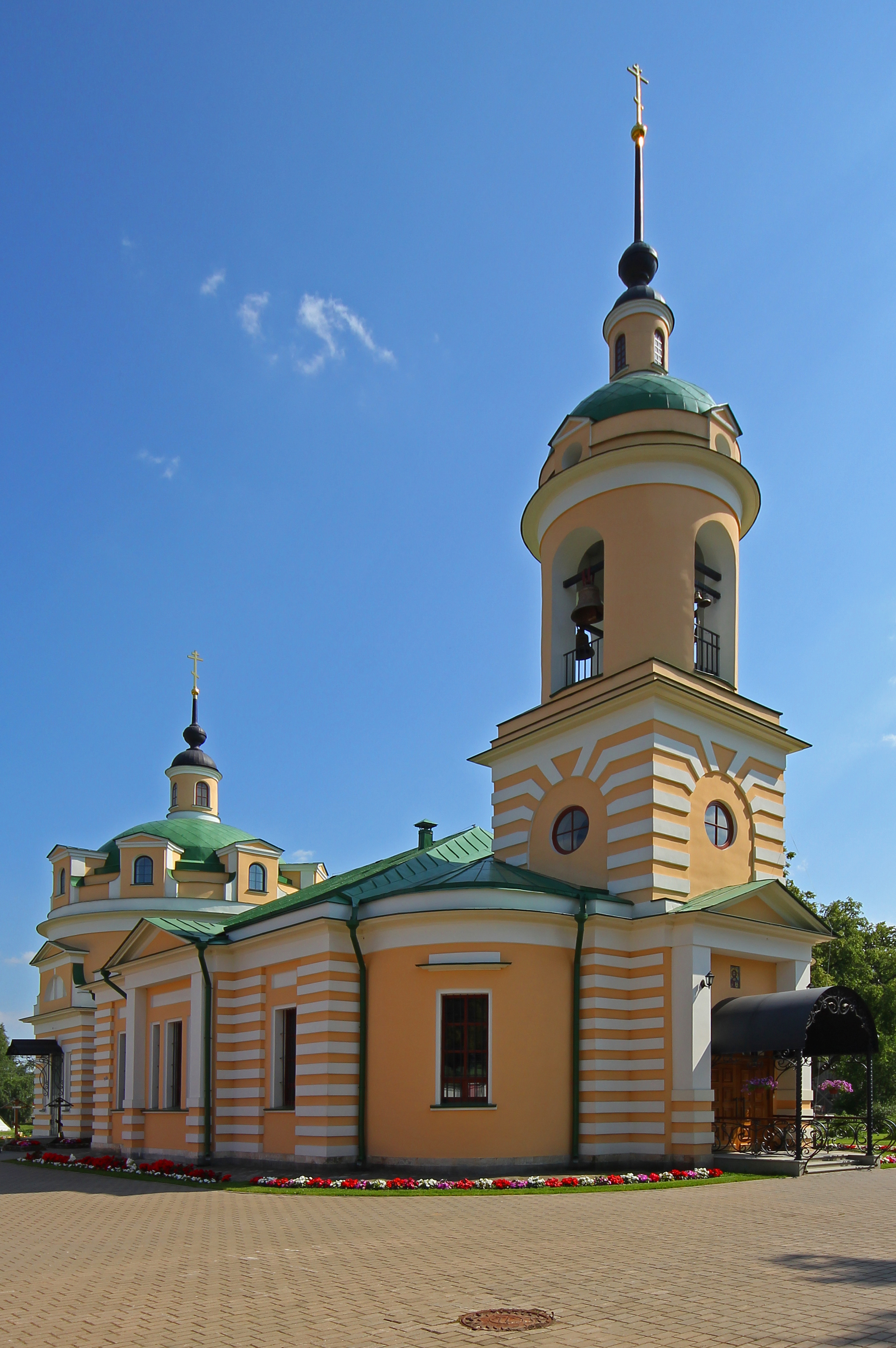 The Anosin Monastery near Dedovsk (Moscow Oblast, Russia). Trinity Cathedral.